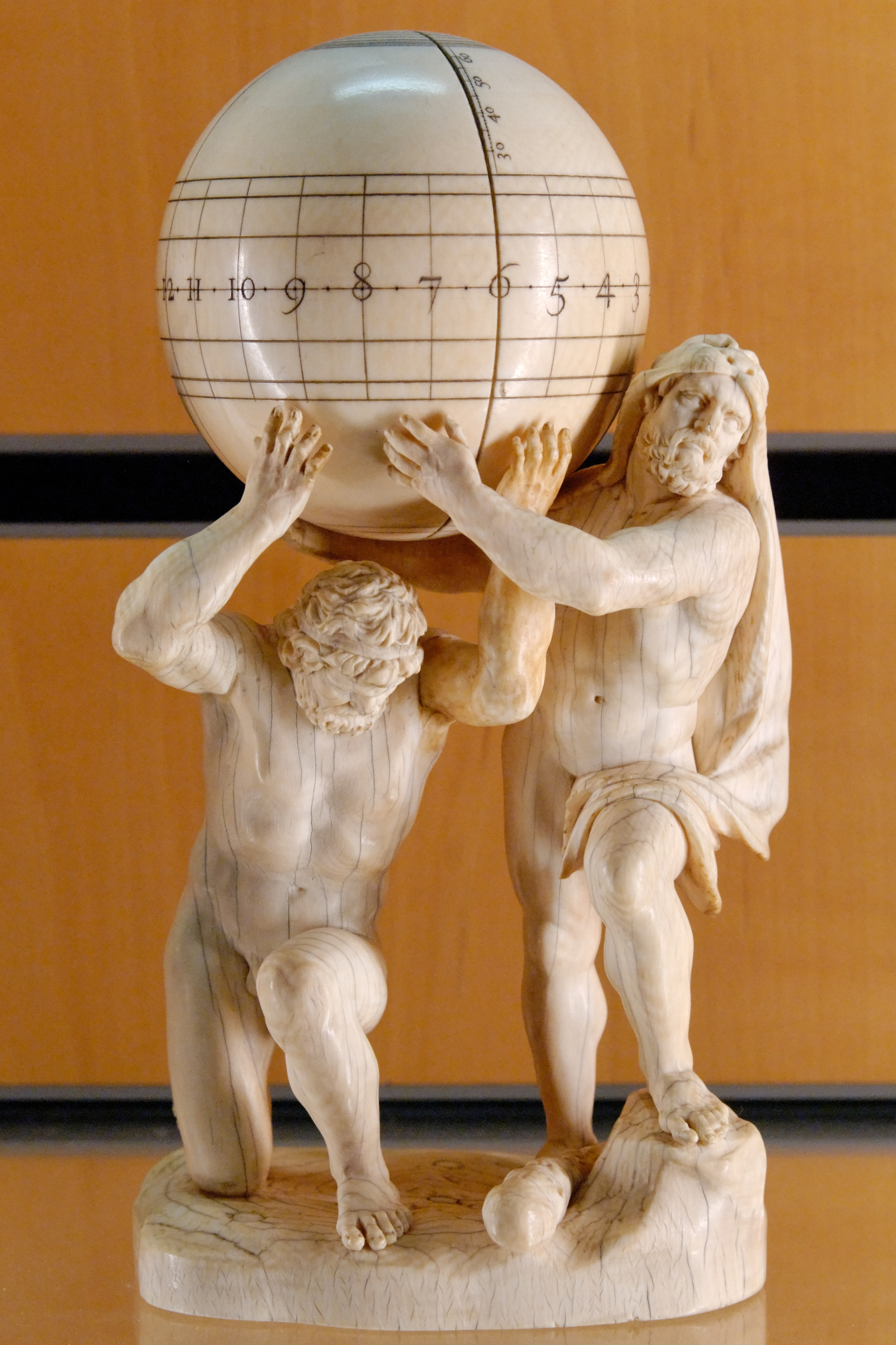 Atlas and Hercules carrying a sphere. Ivory, 17th century.